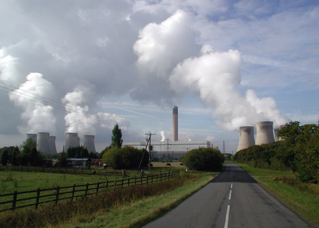 Carr Lane, Long Drax Looking west along Carr Lane from the site of the level crossing on the disused Hull & Barnsley Railway. Services on the Hull & Barnsley Railway line west of South Howden only lasted from the 1880s until 1st January 1932 and the regular service between Hull and South Howden ended on 30th July 1955, although some excursion traffic continued until about 1958. A short stretch of the line was reopened at Drax in the '70s to transport coal from nearby mines to the power station. Carr Lane is a common name in these parts, the carrs traditionally meaning rough pasture on reclaimed marshland which was only suitable for grazing when the water level was low. The lane here was widened in the early 1970s to accommodate the huge loads being transported from a jetty on the River Ouse during the building of the power station. Built between 1974 and 1986, Drax was the last coal-fired plant to be built in Britain and is also the largest, producing around 7% of the country's electricity.